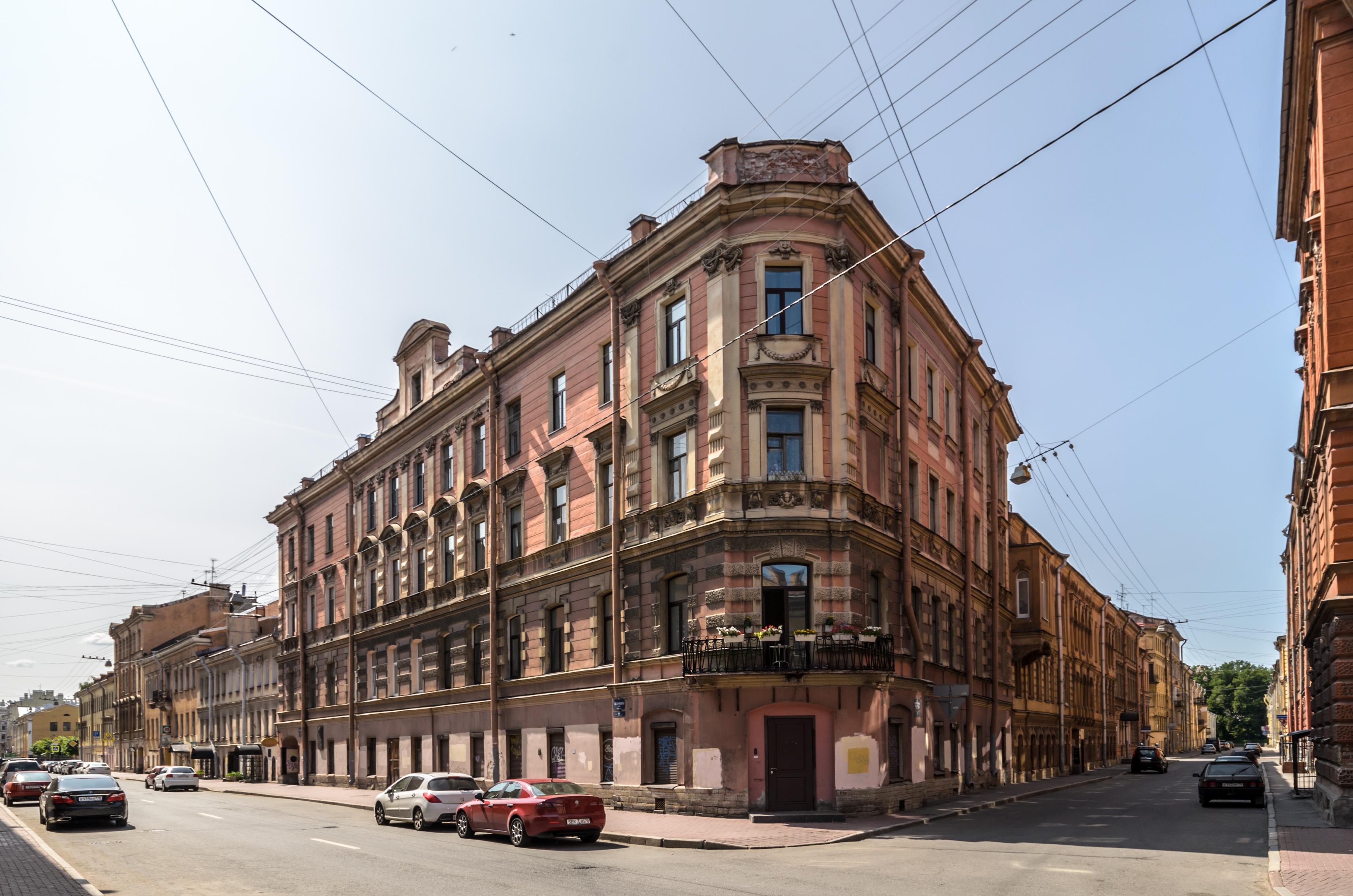 Gagarinskaya Street in Saint Petersburg